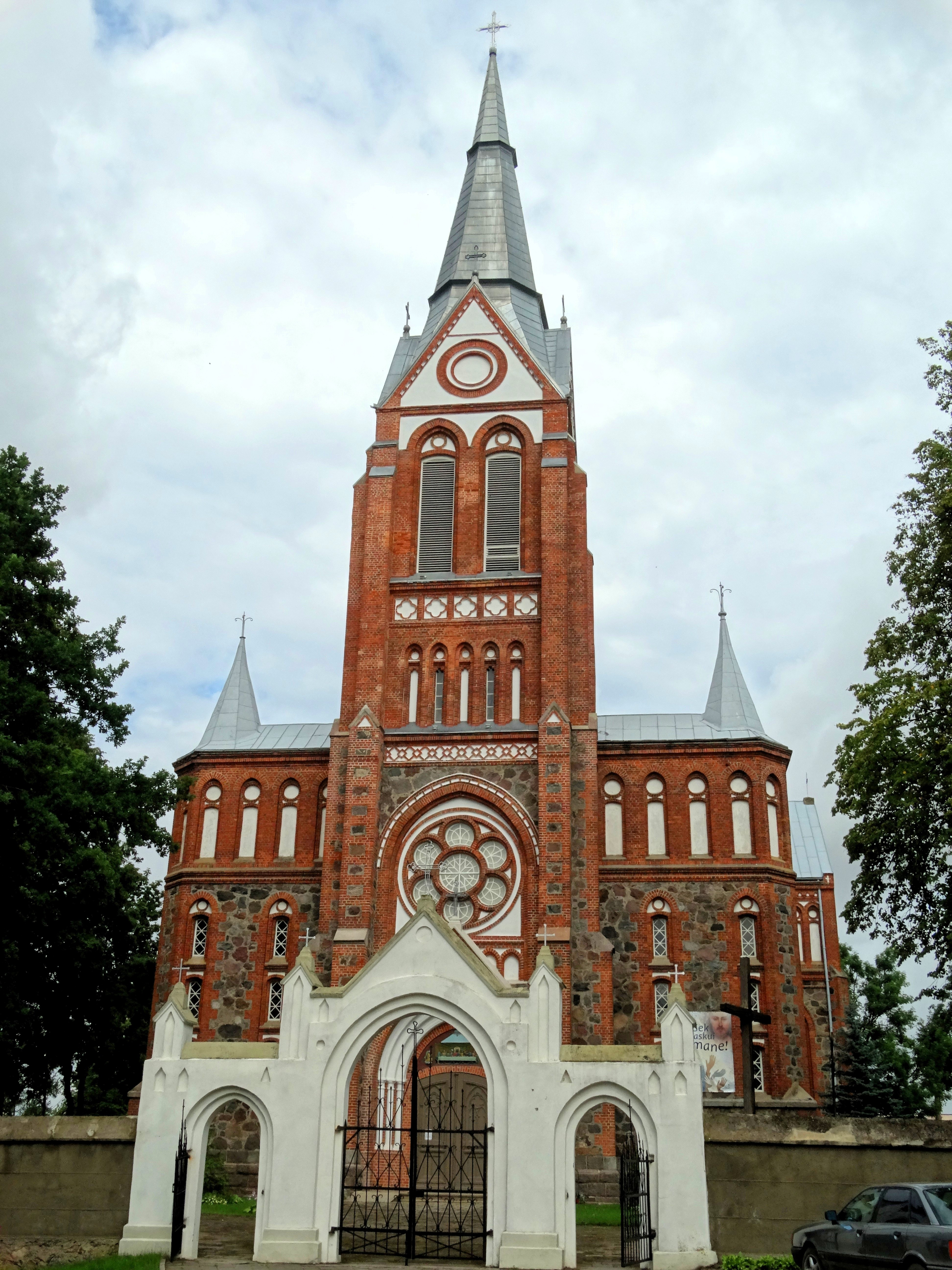 Saint Anne's Roman Catholic Church, Akmenė, Lithuania